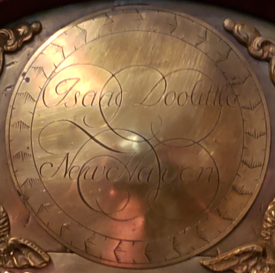 Brass engraving "medallion" element taken from the engraved brass clock-face of a Colonial American 1770s Hall Clock designed and crafted by brass clock and scientific instrument maker Isaac Doollittle of New Haven, Connecticut, USA. In addition to the elegant text script, the outer ring of the medallion has an carefully engraved series of feathered arrows in a clockwise direction set above the dial face of the clock.